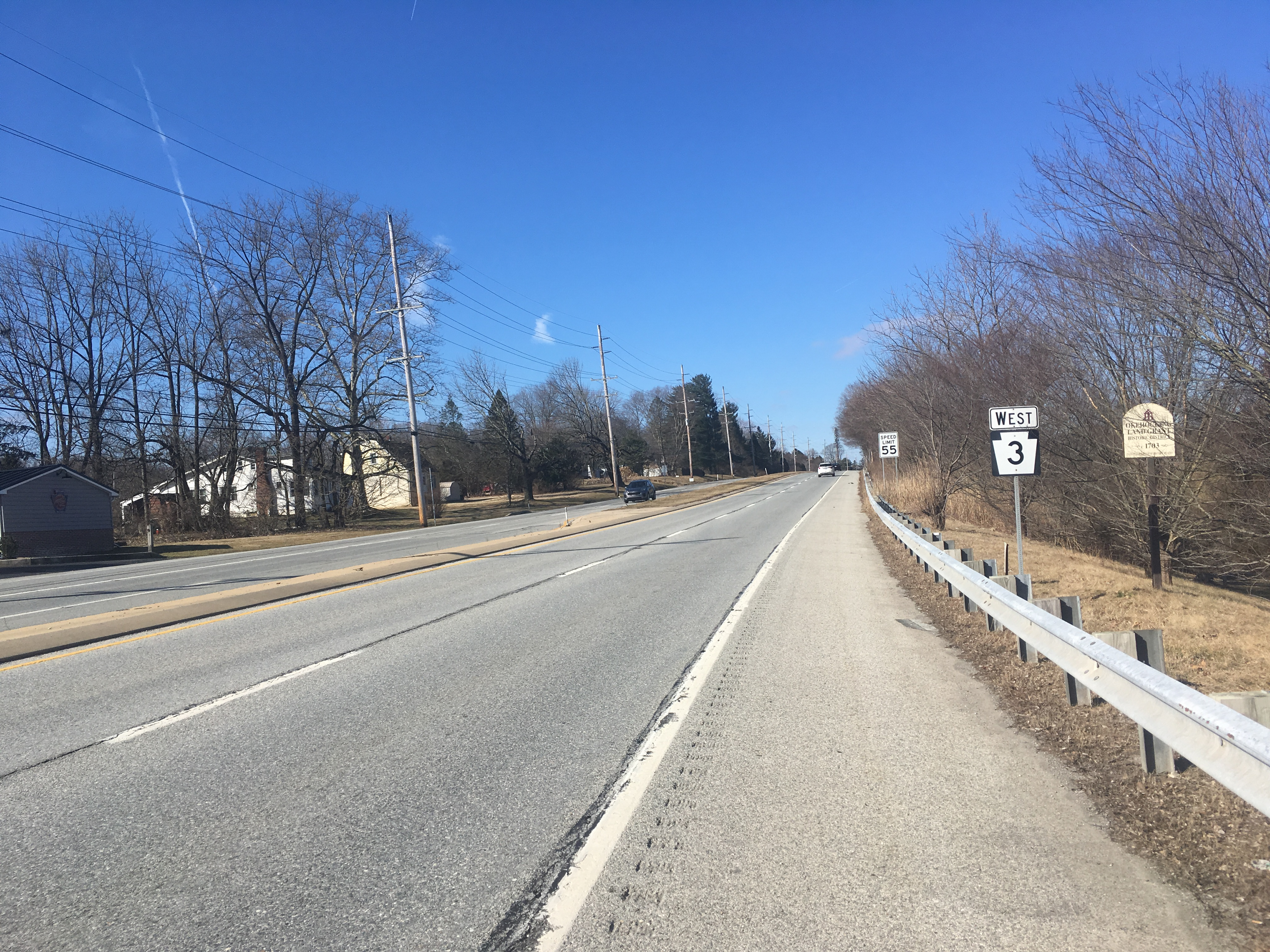 Westbound Pennsylvania Route 3 (West Chester Pike) past the intersection with the eastern terminus of Pennsylvania Route 926 (Street Road) in Willistown Township, Pennsylvania